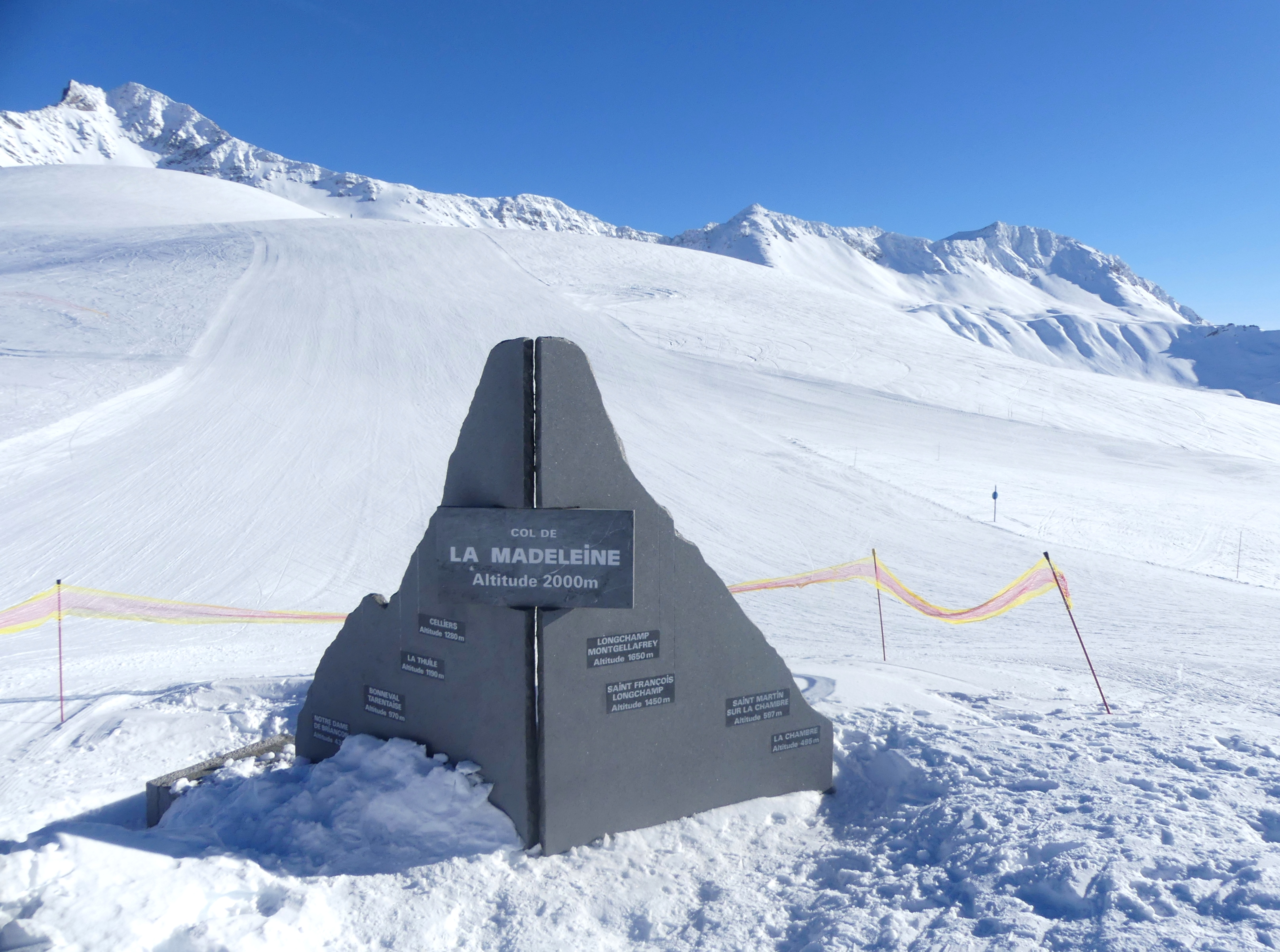 Sight, in winter, of the snow-covered Col de la Madeleine stone-made sign (2,000 meters high), whose road and surrounding meadows are turned into ski slopes of Saint-François-Longchamp ski resort, in Savoie, France.